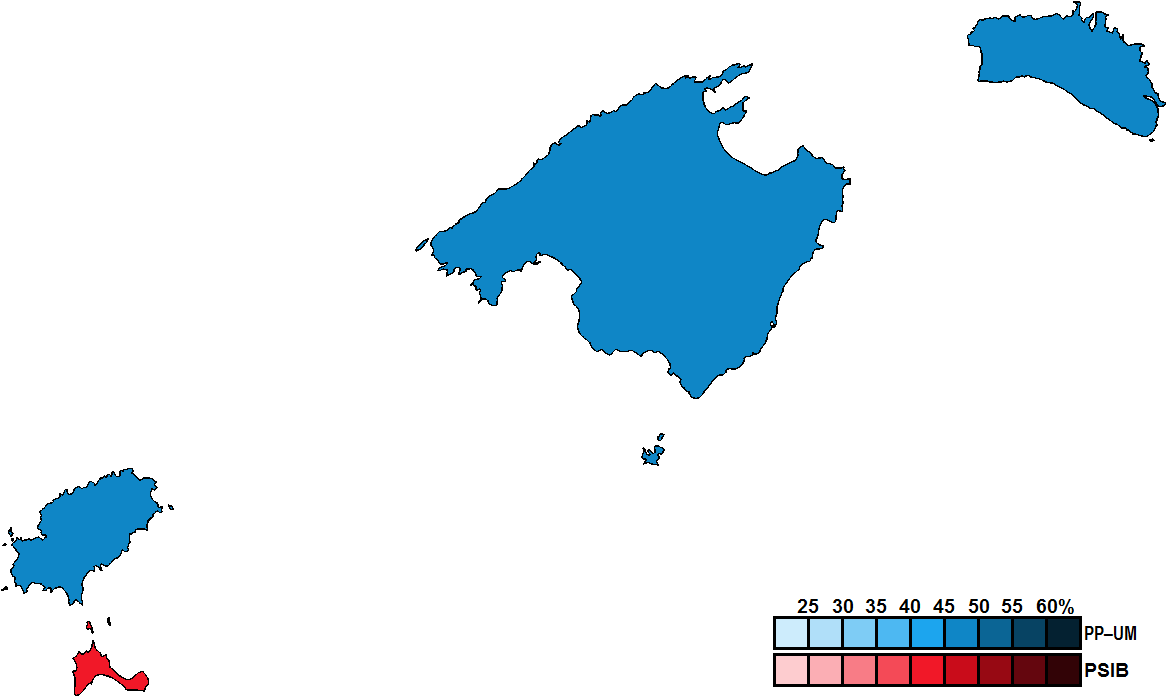 District results for the 1991 Balearic regional election.